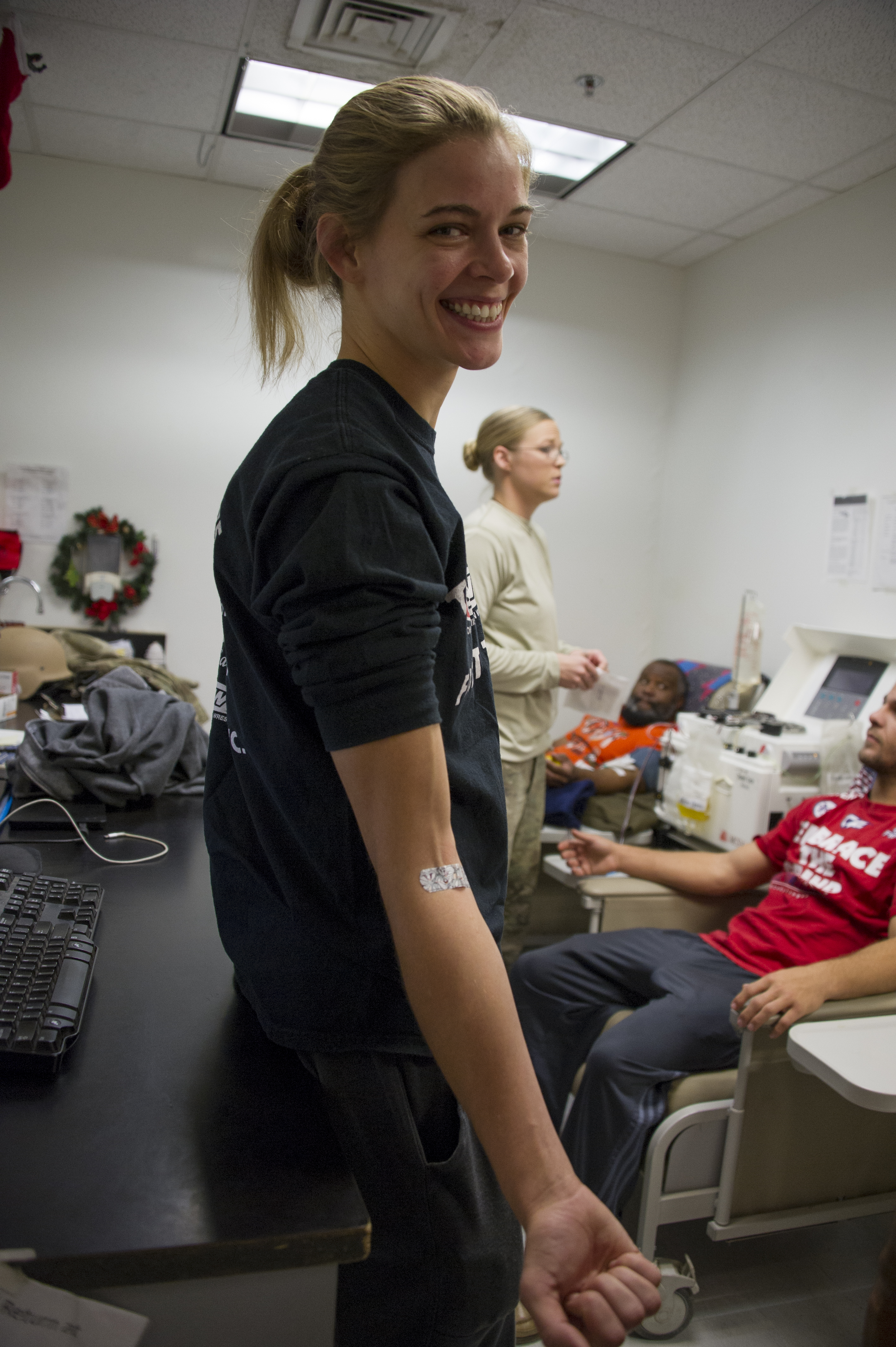 Mixed Martial Arts fighters Shayna Baszler, Cody Bollinger, Jessamyn Duke, Tyler Minton, Gilbert Smith, and Jonathan Tuck visited service members at Bagram Airfield, Afghanistan during the Armed Forces Entertainment MMA Holiday Tour, Jan. 1, 2016. The fighters toured the hospital, met with the Marines, had lunch with troops, and held a grappling session with ambitious participants.